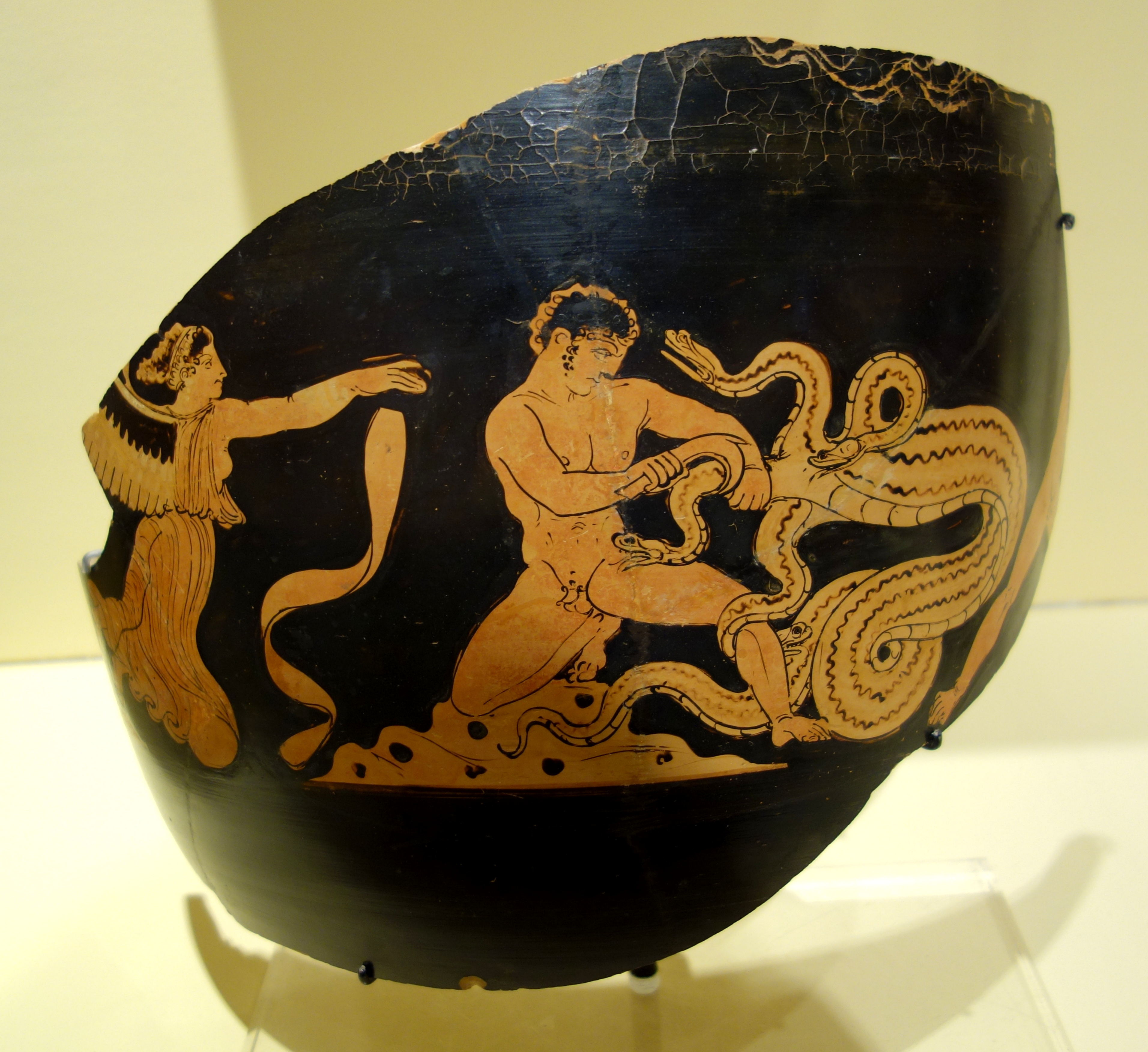 Exhibit in the Fitchburg Art Museum, Fitchburg, Massachusetts, USA. This artwork is old enough so that it is in the public domain.